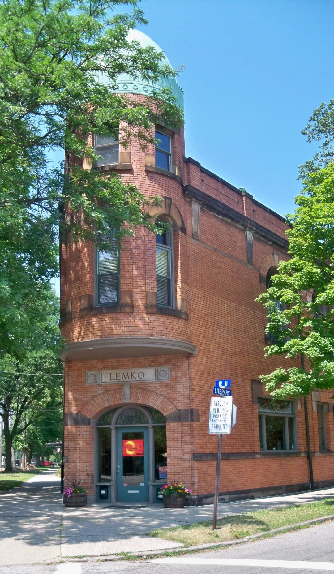 Lemko Hall, on the corner of West 11th Street and Literary in the Tremont neighborhood of Cleveland, Ohio